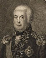 Miguel Pereira Forjaz, nono conde da Feira